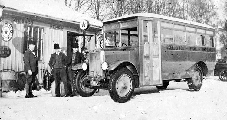 Older swedish Scania-Vabis bus at Texaco fuel station at main square in Skellefteå.